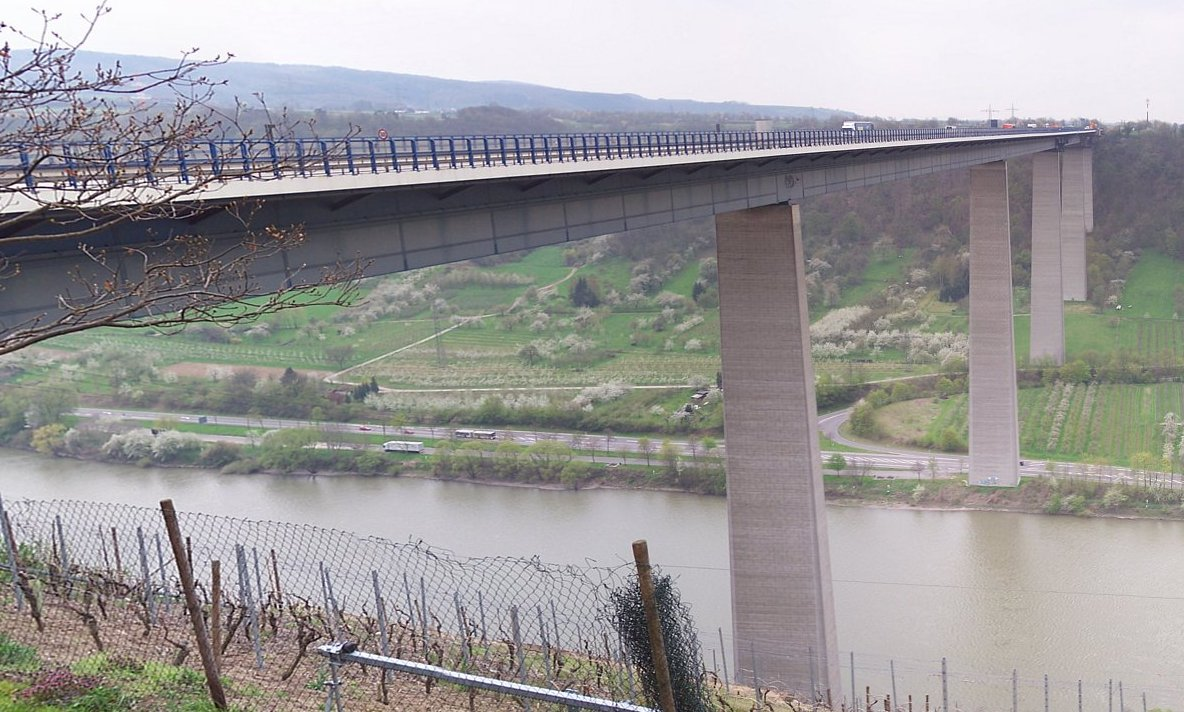 A61, Moseltalbrücke, Germany. Part of Image:Pano mosel.jpg